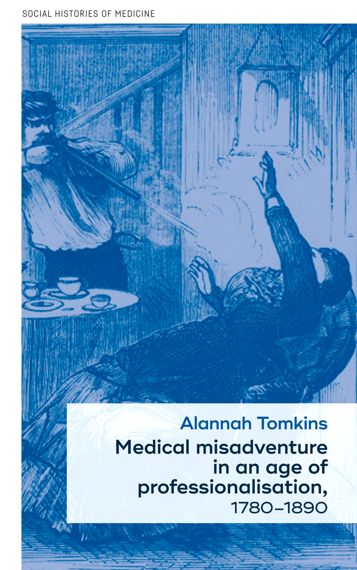 Medical Misadventure in an Age of Professionalisation, 1780–1890 cover. Image out if copyright. Text too simple for copyrighting.